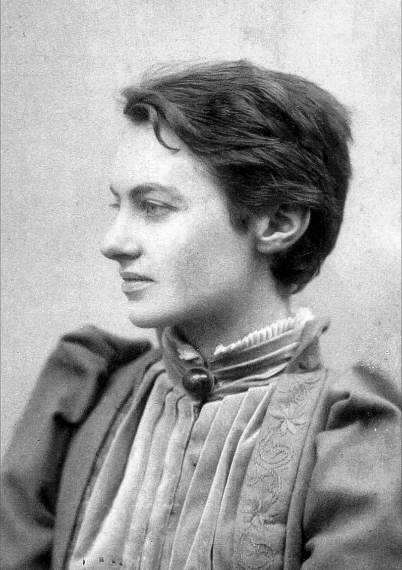 The young Edith Durham in the 1880s